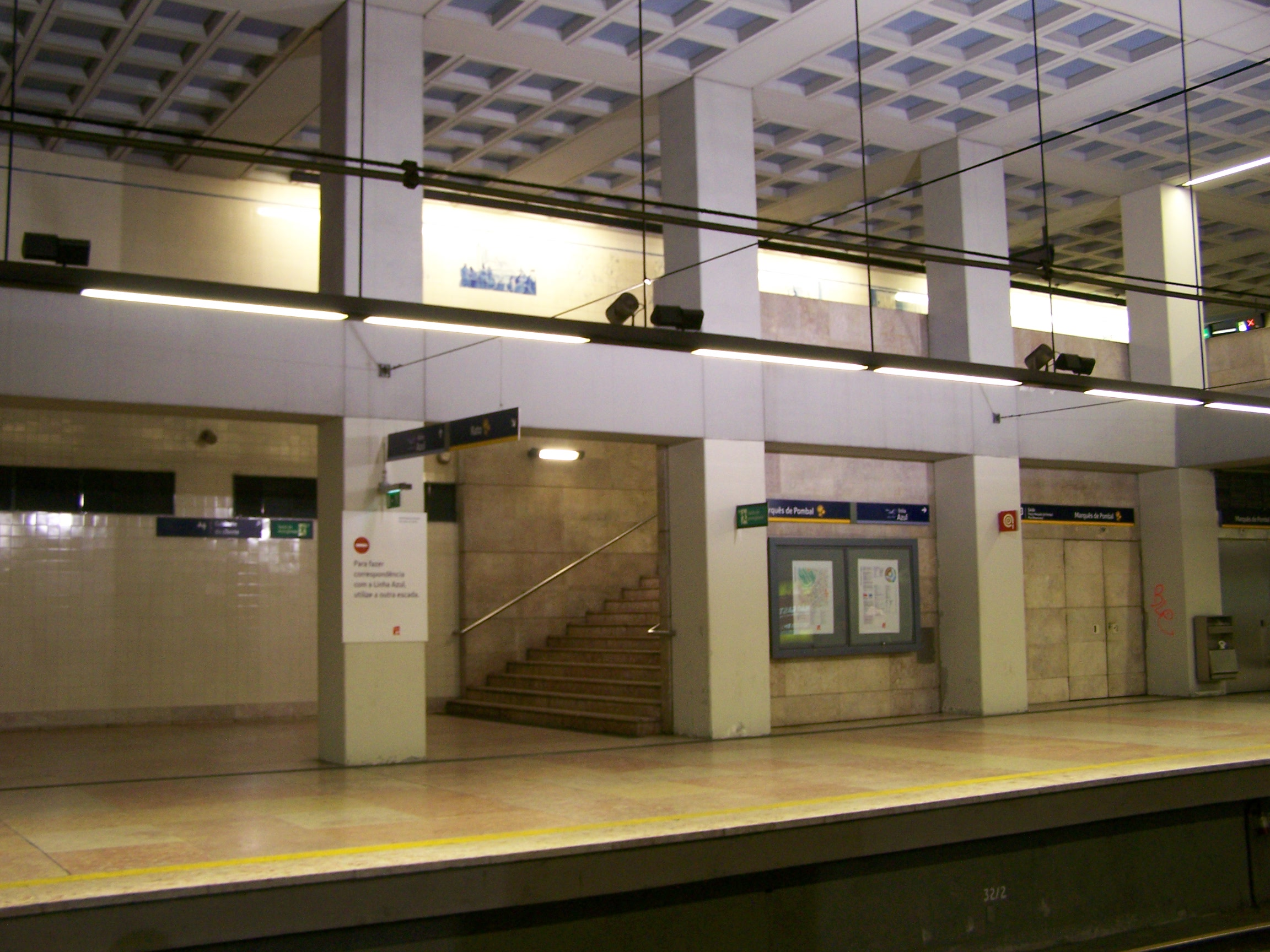 the underground station Marquês de Pombal, Linha Amarela, Lisbon, Portugal